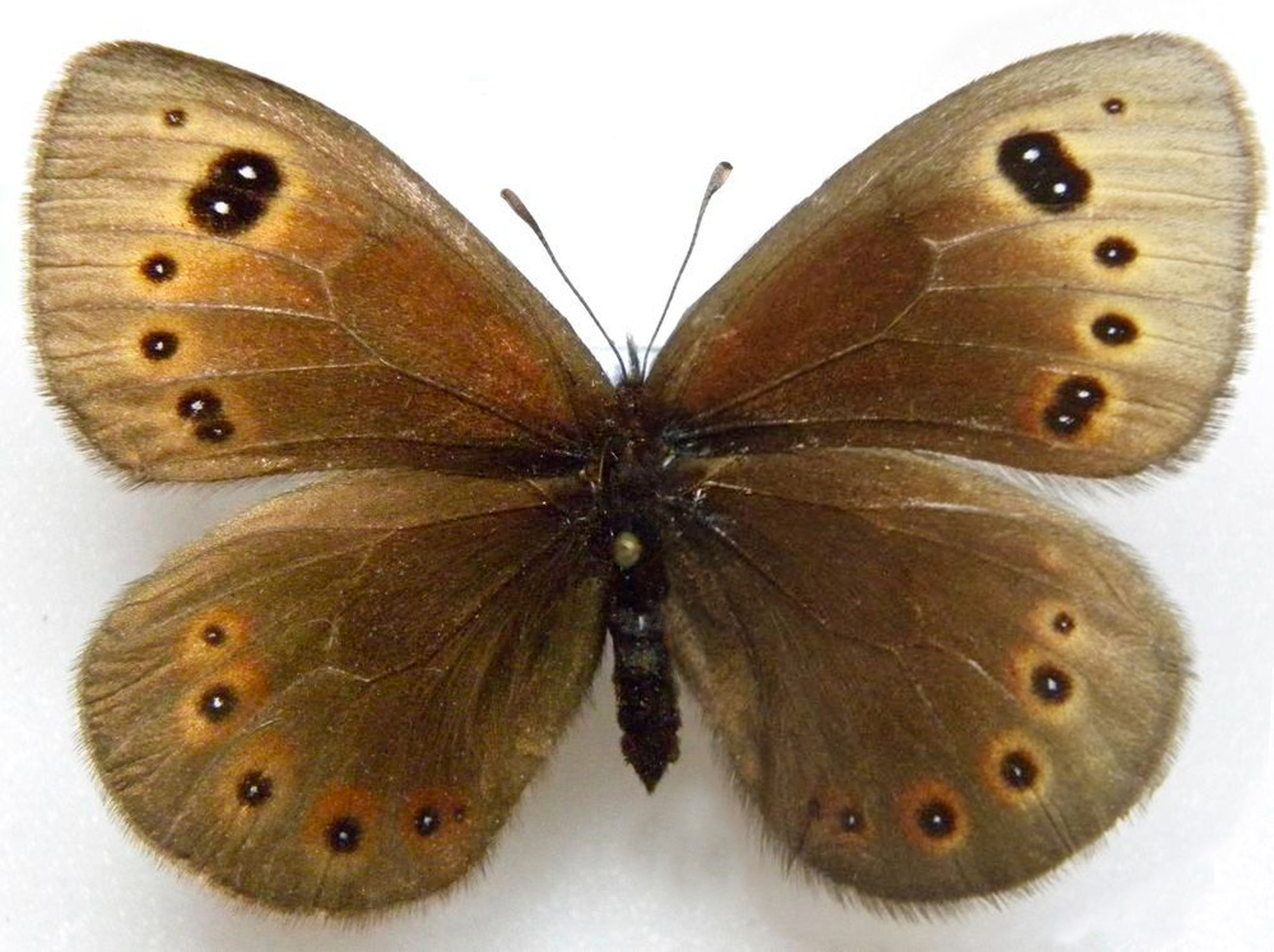 Proterebia afra from Croatia